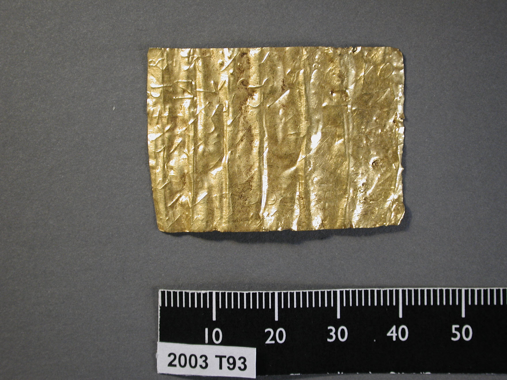 Roman talisman made of a rectangular gold sheet, incised with Greek and Latin letters and various magical symbols. Found at Billingford in Norfolk.